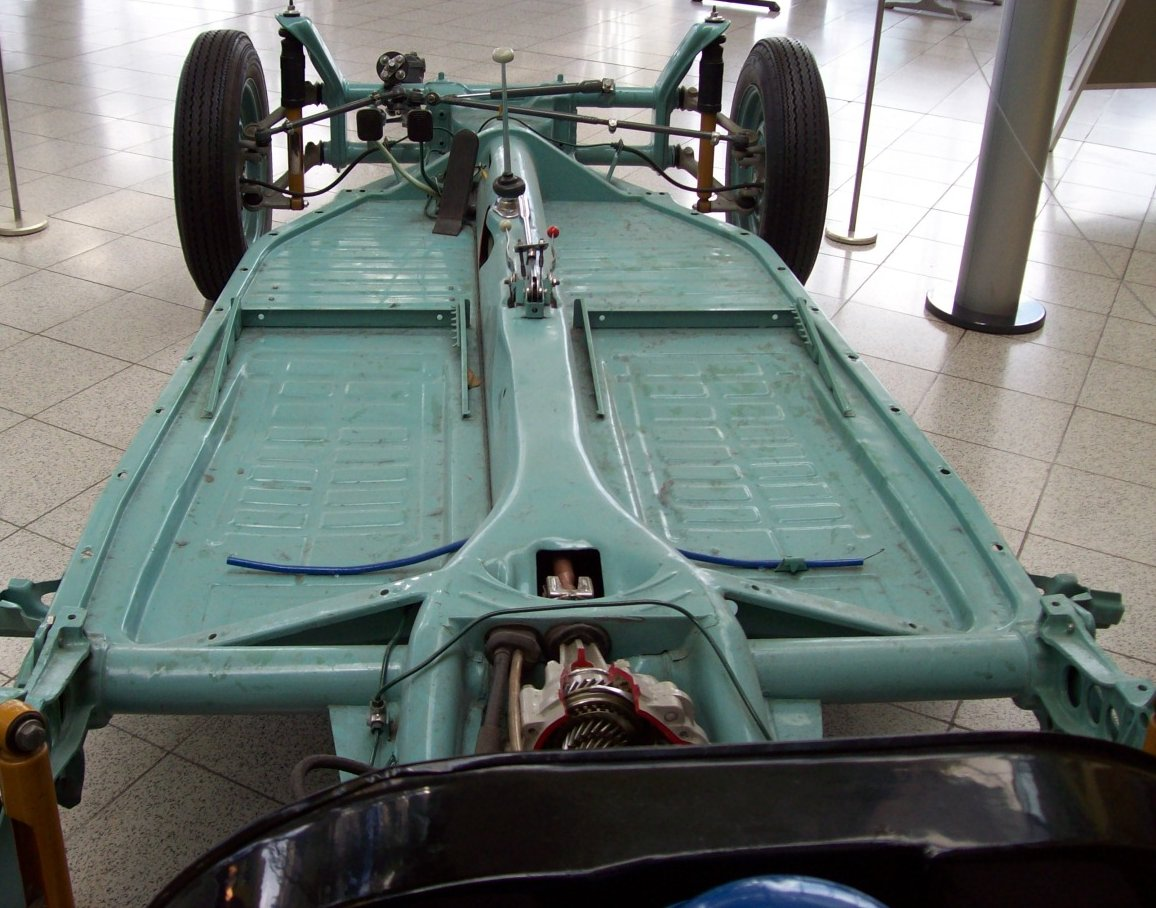 1966 VW Käfer 1300 pan, cut away model